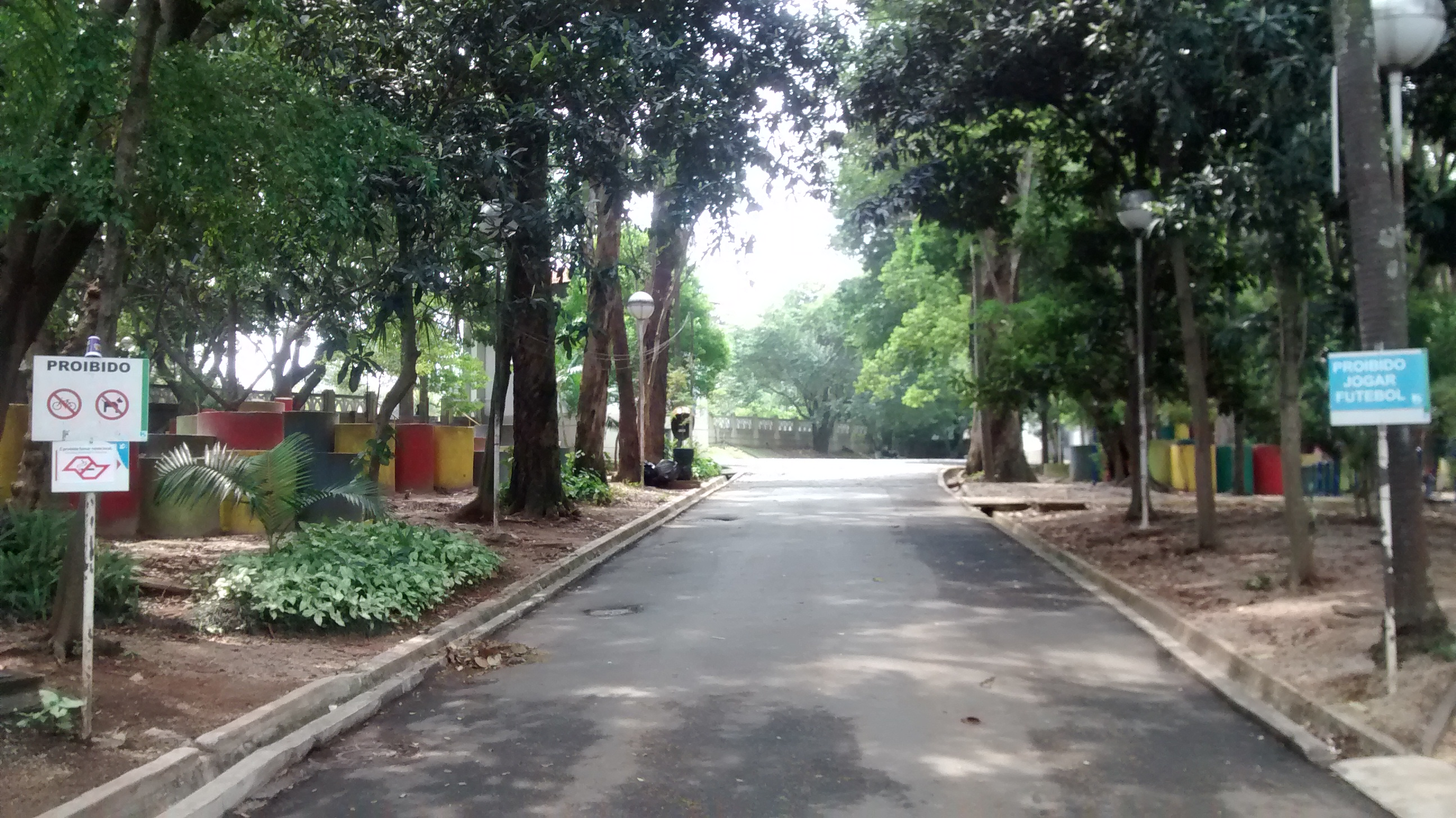 Entrada do Reservatório do Sumaré, localizado na Praça São Domingos Sávio, em São Paulo (SP), Brasil.